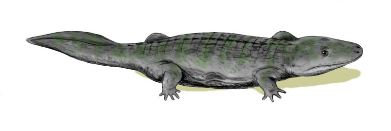 Watsonisuchus (=Edingerella) madagascariensis, a temnospondyli from the Early Triassic of Madagascar, pencil drawing